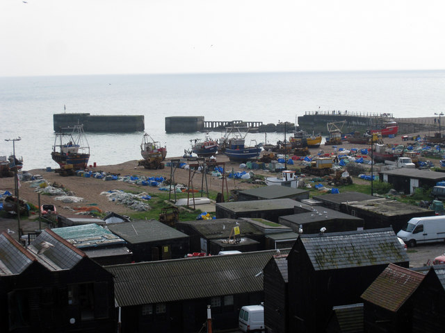 Fishing Boats at Hastings sea front One of the largest beach based fishing fleets in the UK.